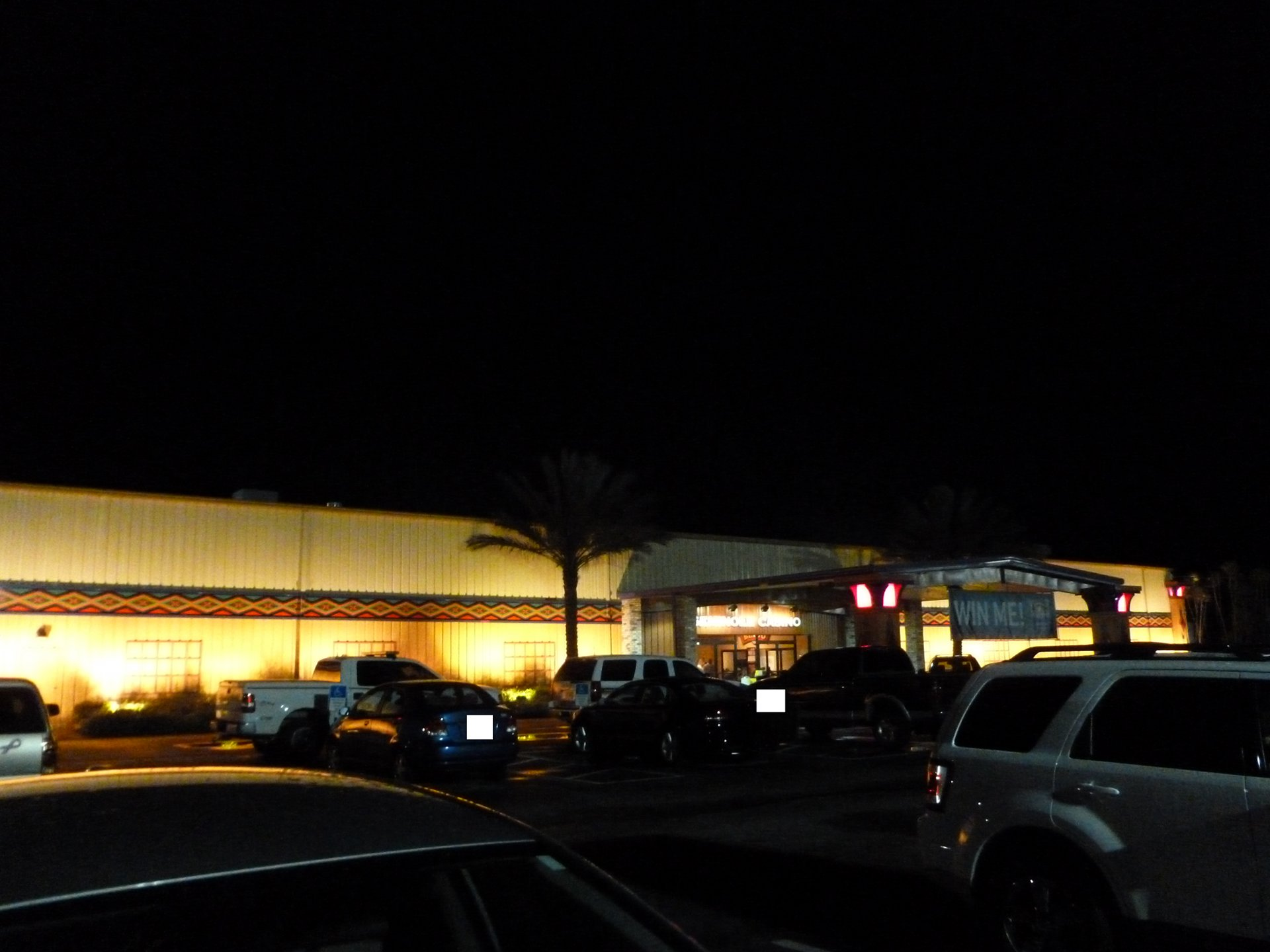 Native American casino near Lake Okeechobee